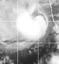 Tropical Cyclone Phyan shortly after it was named